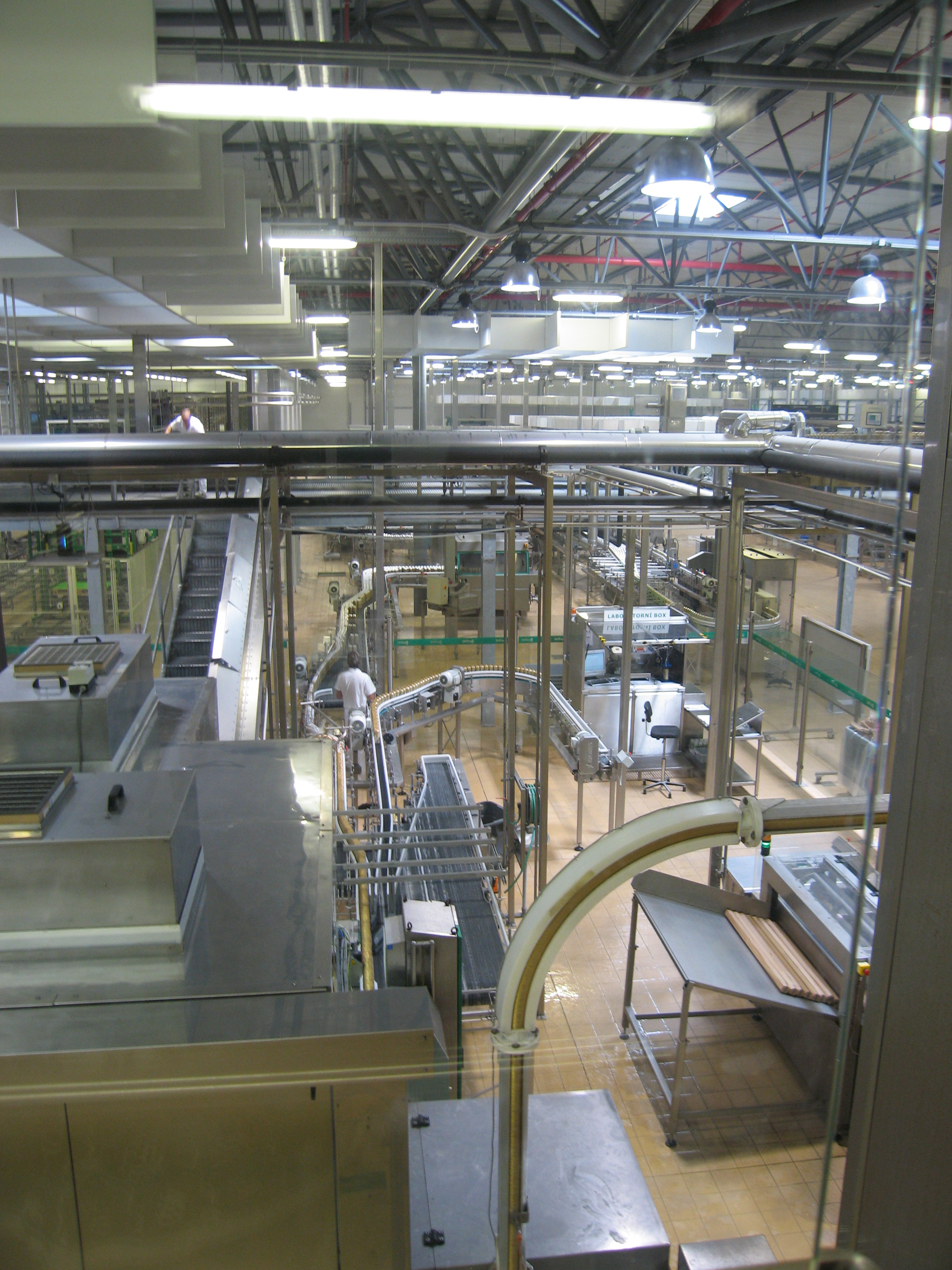 Tour of Plzeňský Prazdroj (Pilsner Urquell) brewery in Plzeň, Czech Republic.